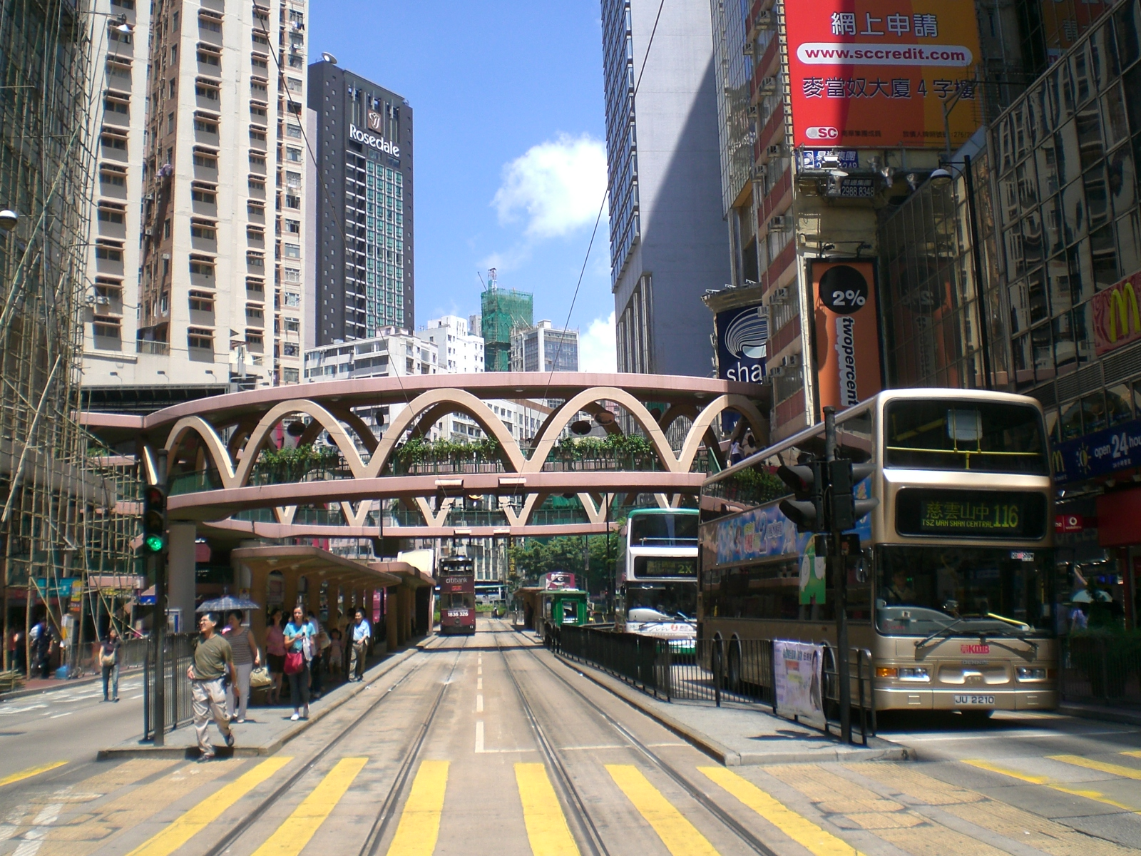 怡和街行人天橋, Yee Wo Street. Author= RoxRox